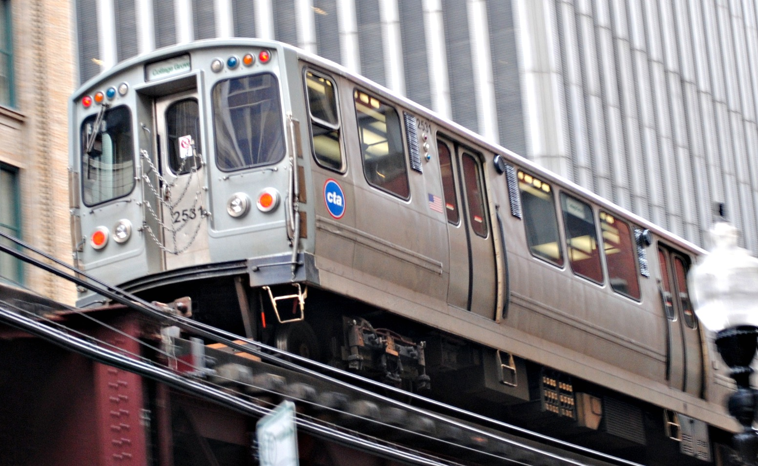 Chicago Elevated, Wabash